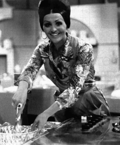 Italian actress Moira Orfei